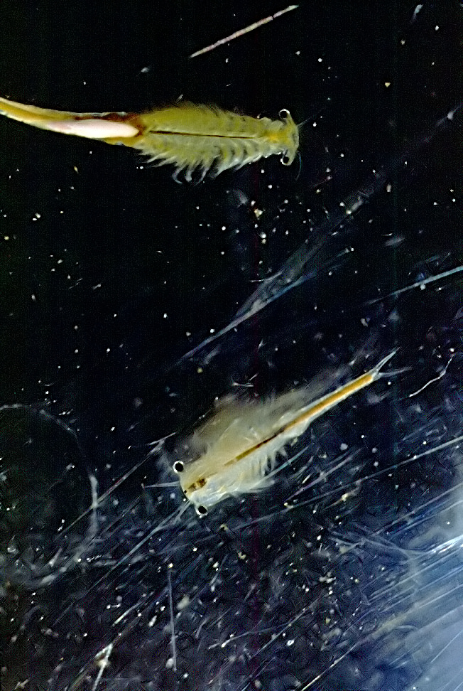 Adult fairy shrimp, Branchinecta packardi. Obtained from